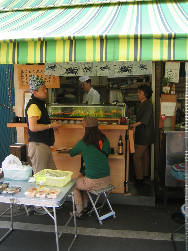 There were dozens of these tiny sushi places around the market.